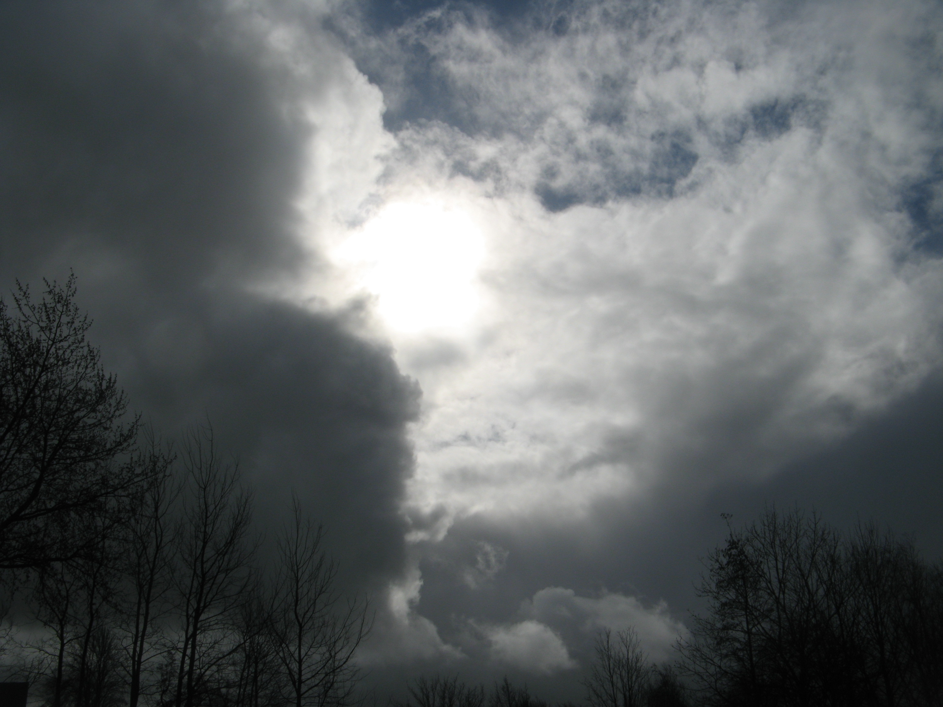 Snowstorm is coming, Norddeich, Dithmarschen, Germany